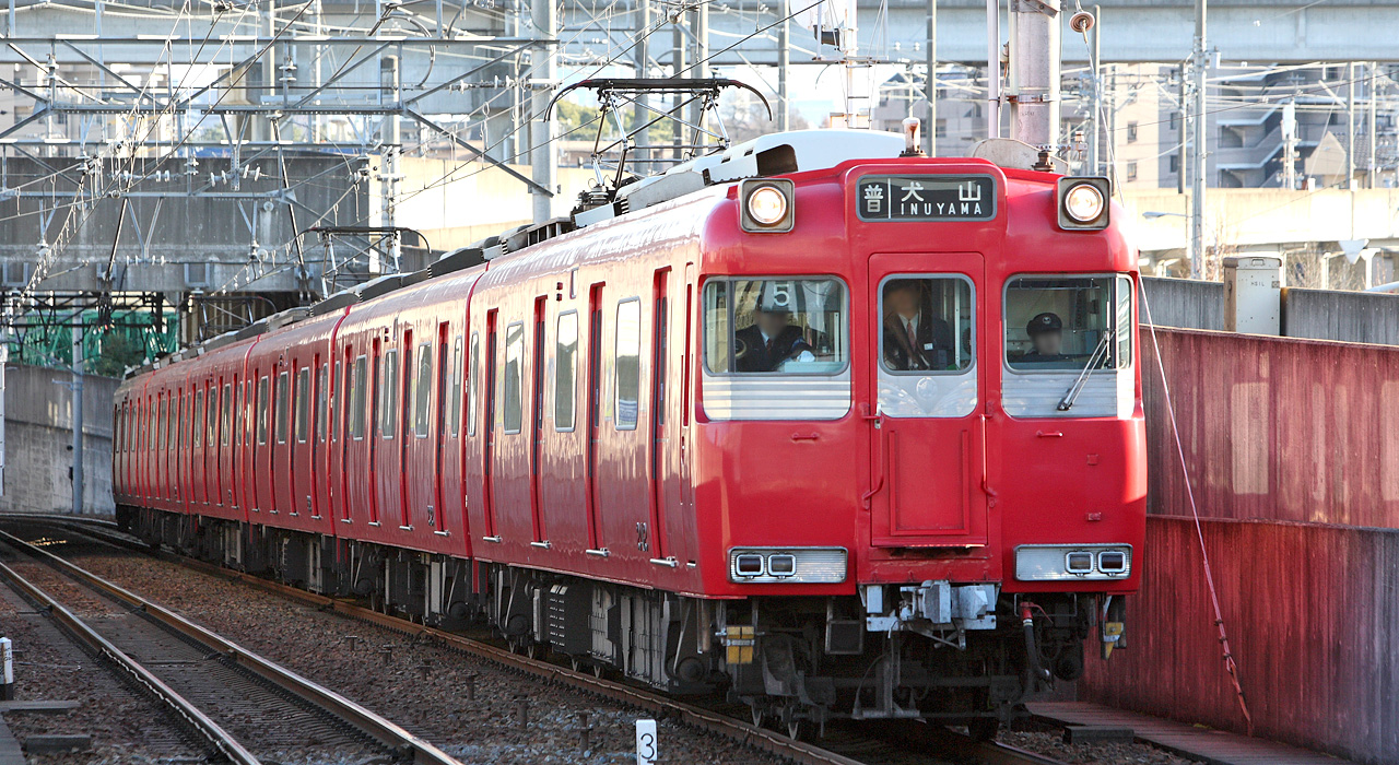 Meitetsu 100 series EMU (212F at Kami-Otai Station)